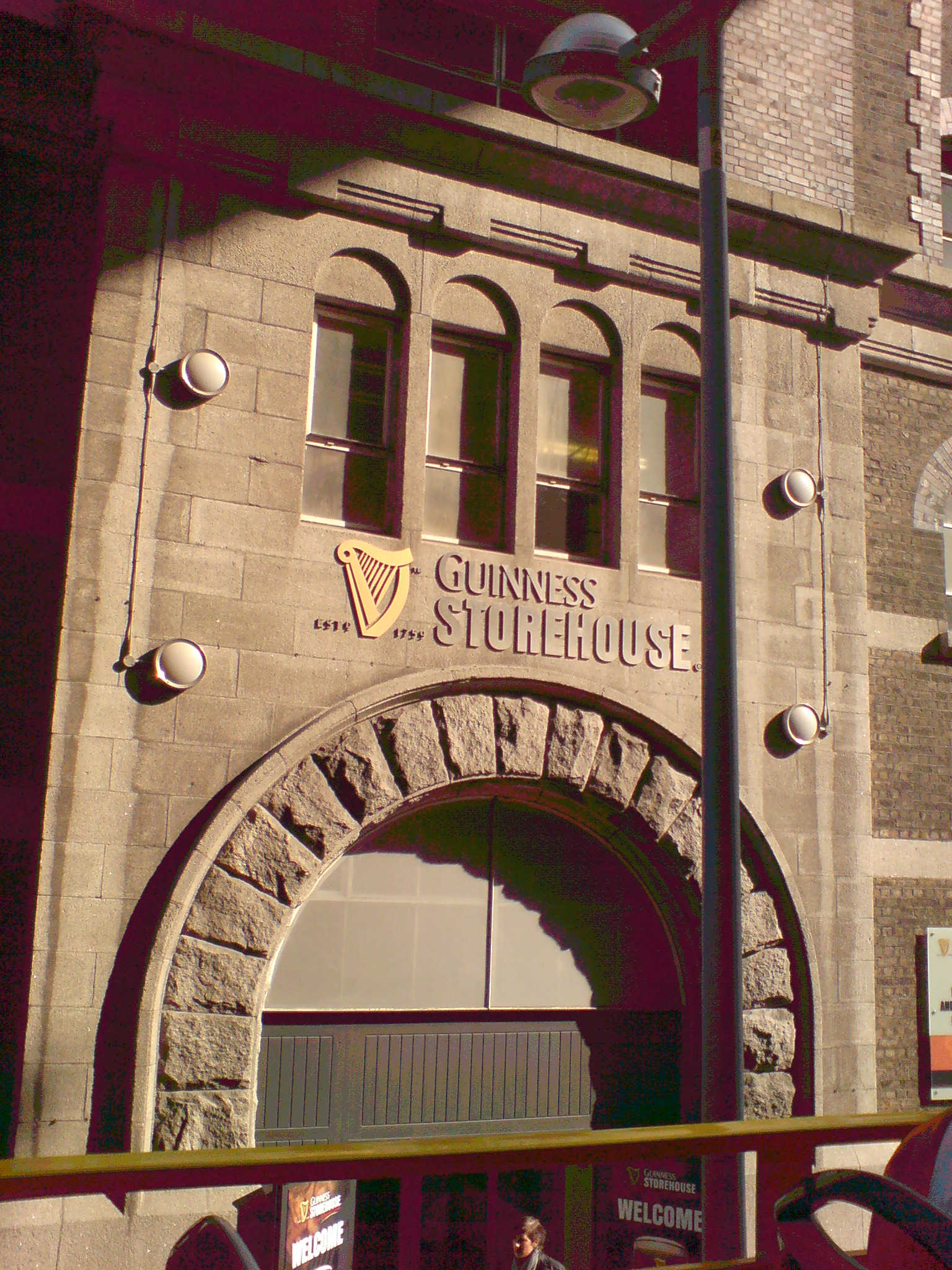 Part of the Guinness Brewery complex in Dublin, ROI.